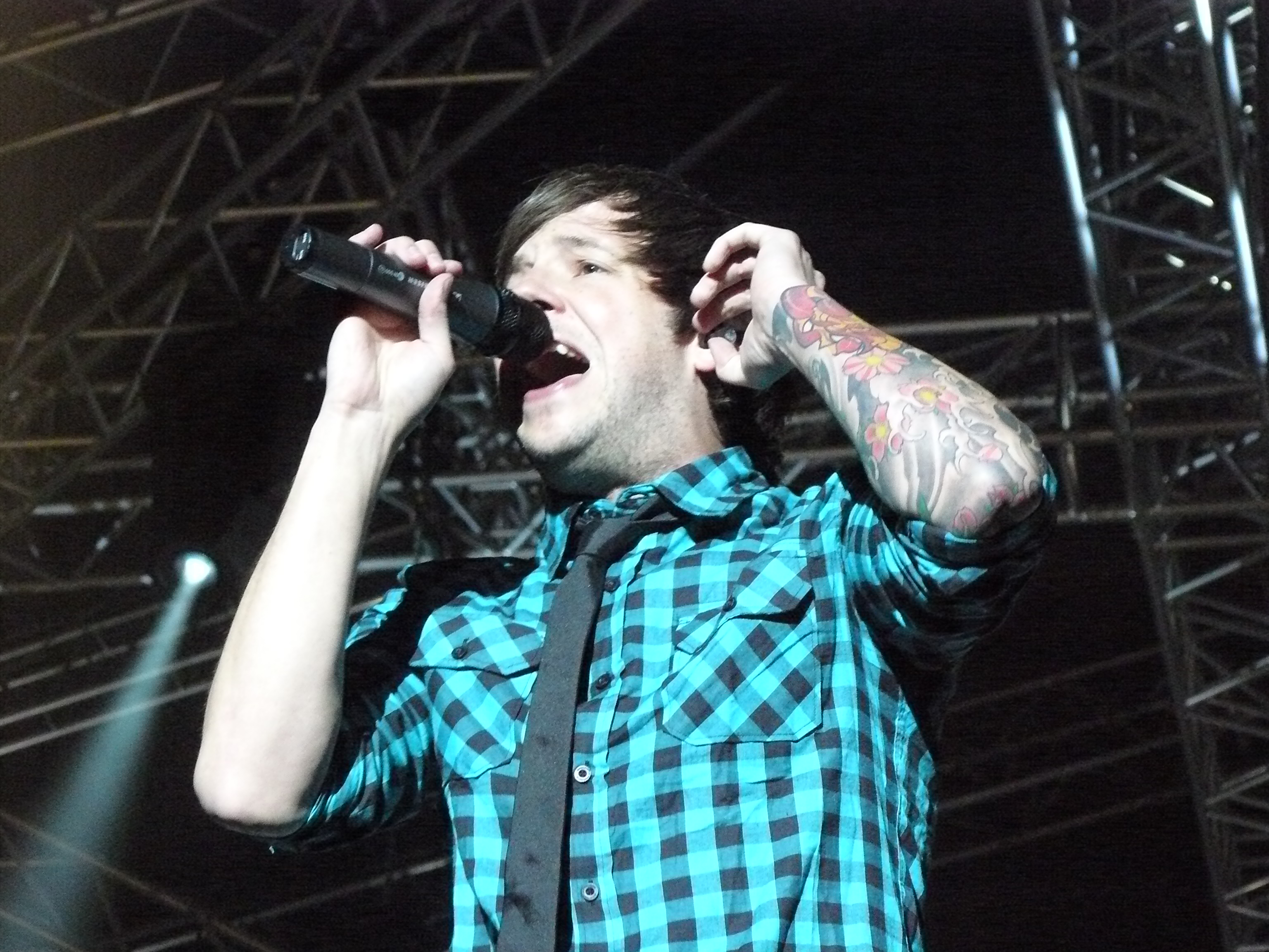 Bouvier performs before 150,000 at Simple Plan's show on the Plains of Abraham, Quebec City, on July 1, 2008. Pierre Bouvier (né à Montréal, au Québec, le 9 mai 1979) est un chanteur québécois connu pour être le leader du groupe de pop punk Simple Plan